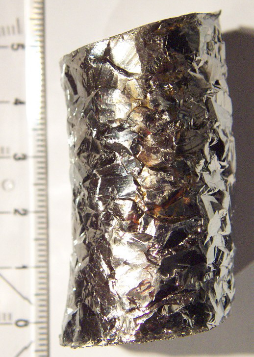 Hafnium crystal bar 99,9% 395g